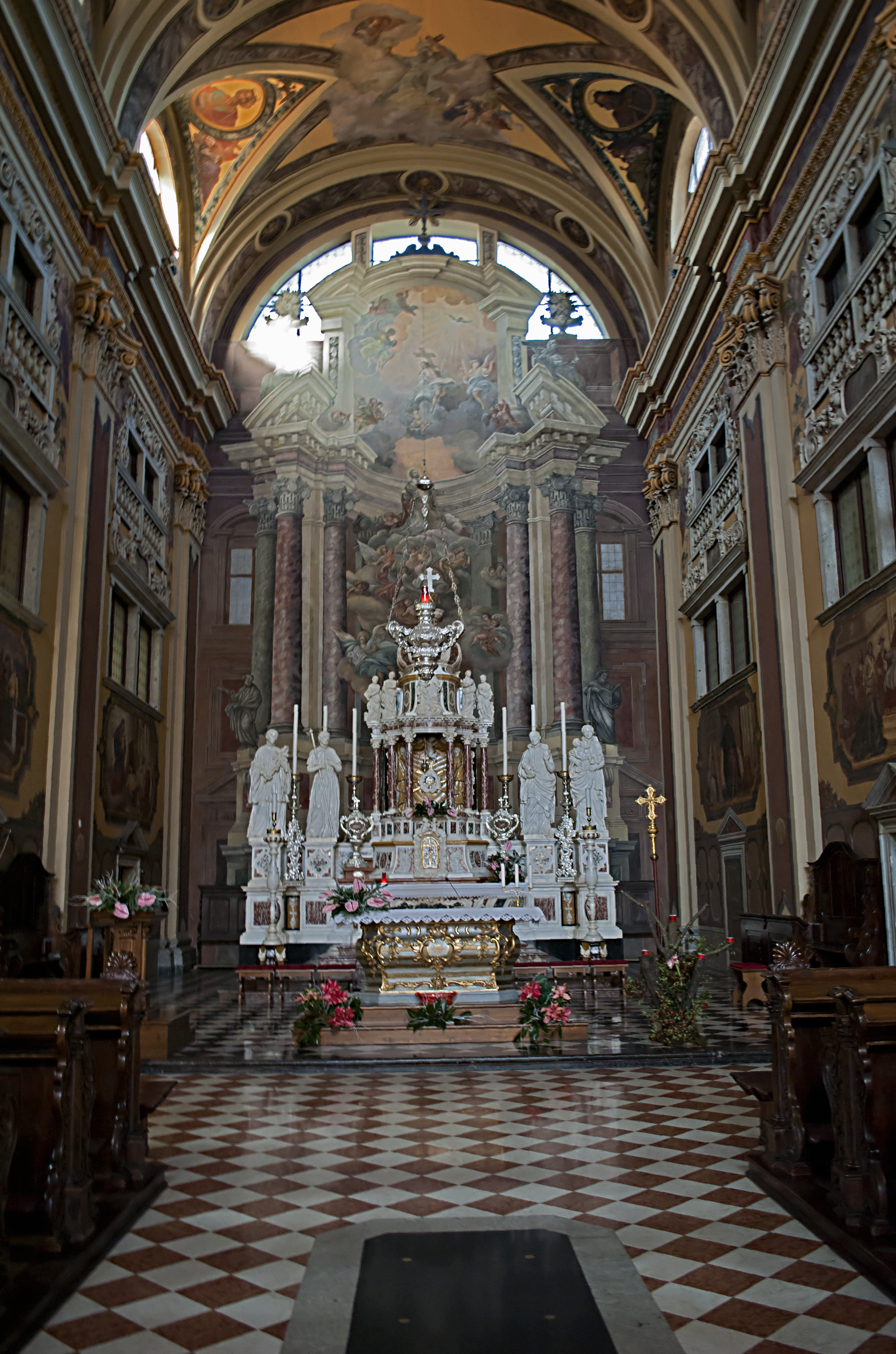 Church of Sant Ignatius in Gorizia, Italy; view of the interior.